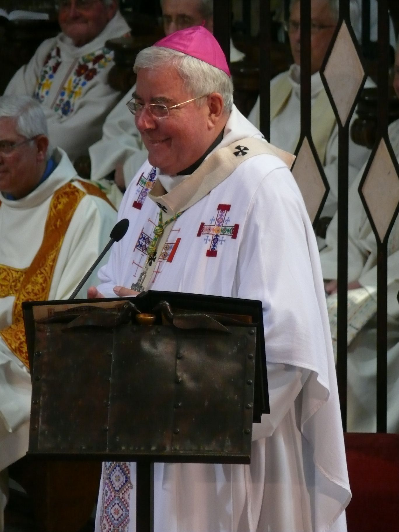 François Garnier, bishop of Cambrai in Cambrai (Nord, France).